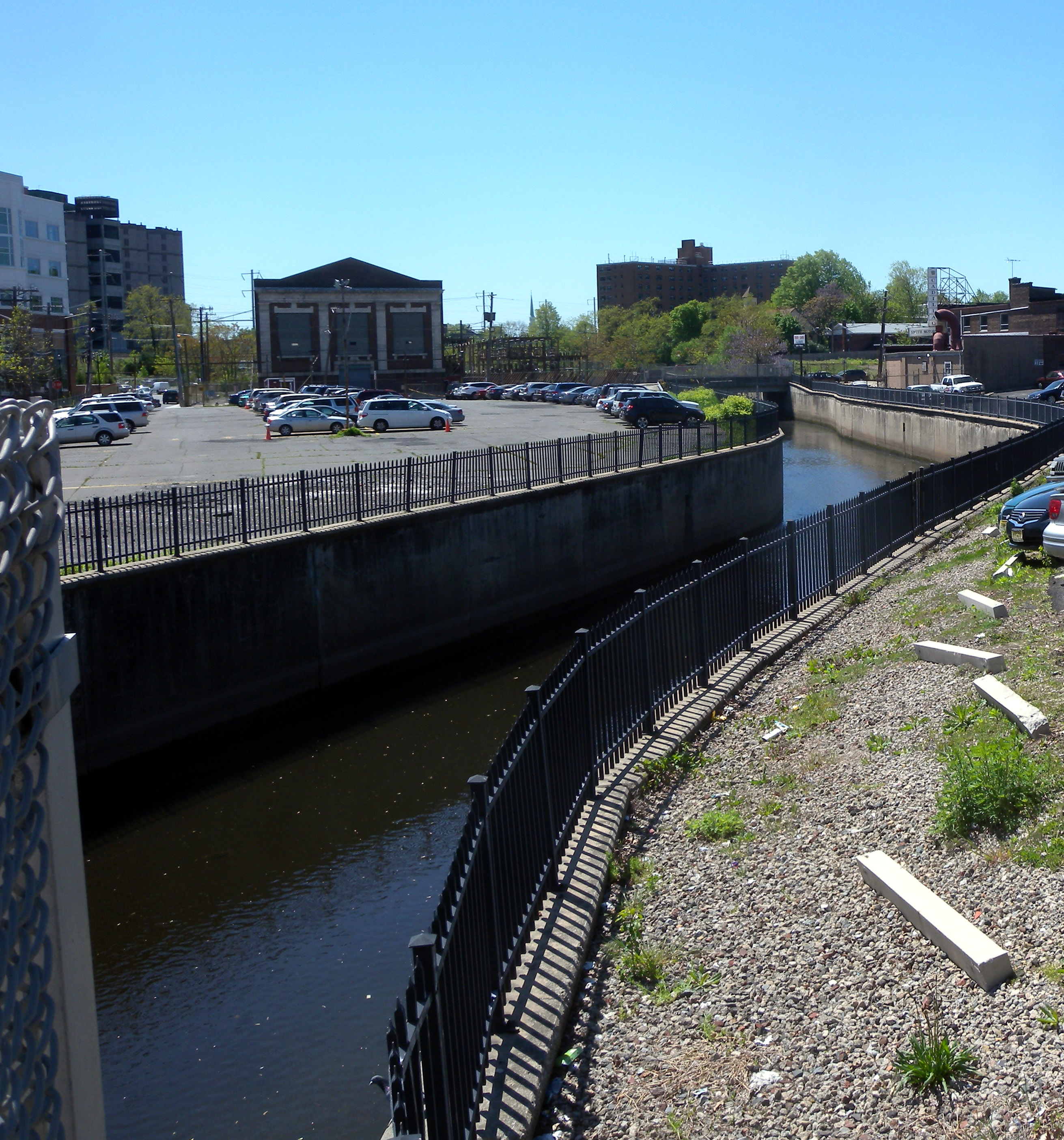 Looking south from West Grand Street, down the walled Elizabeth river on a sunny morning.